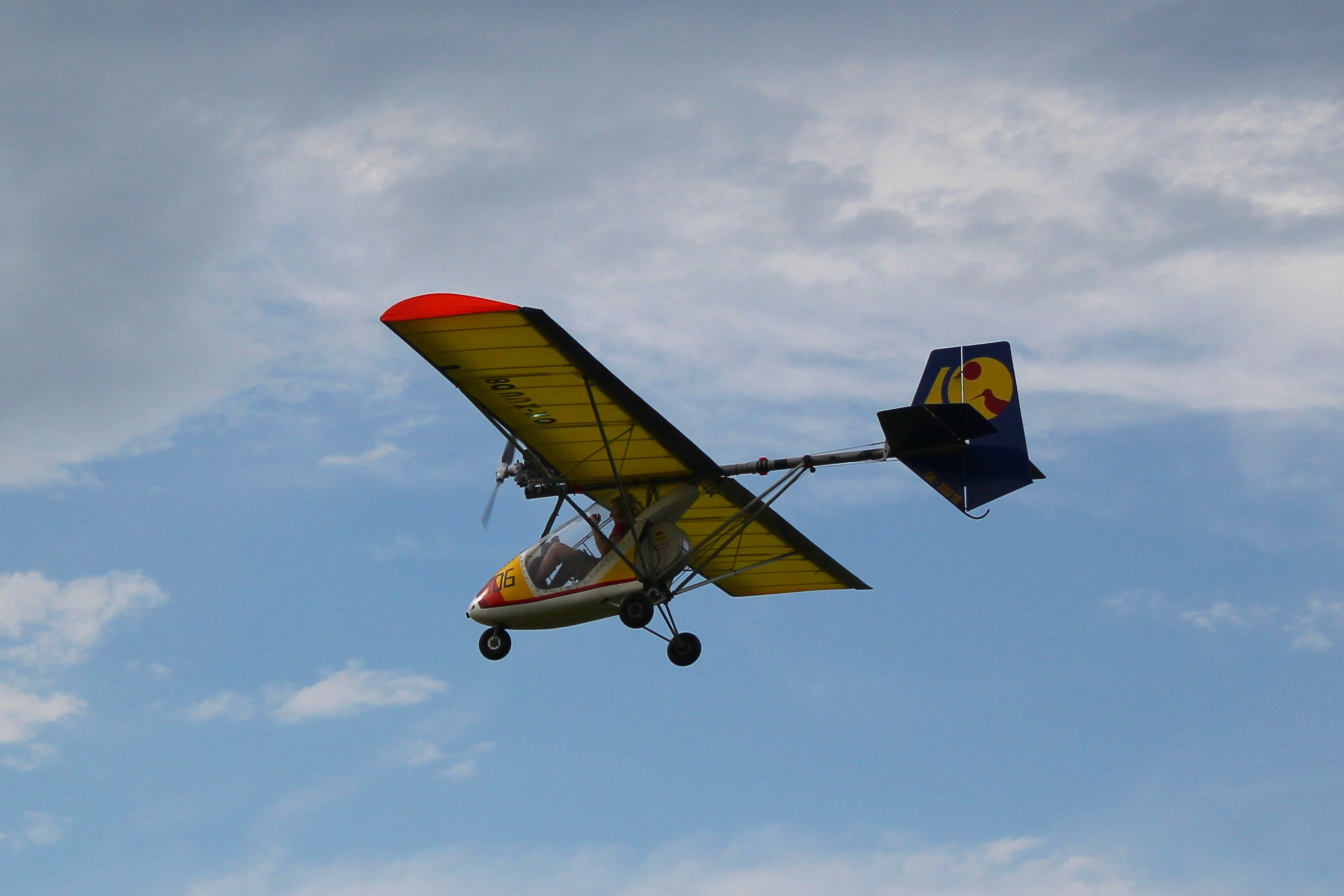 Letov LK-2 Sluka in flight over LKBE Benešov airfield